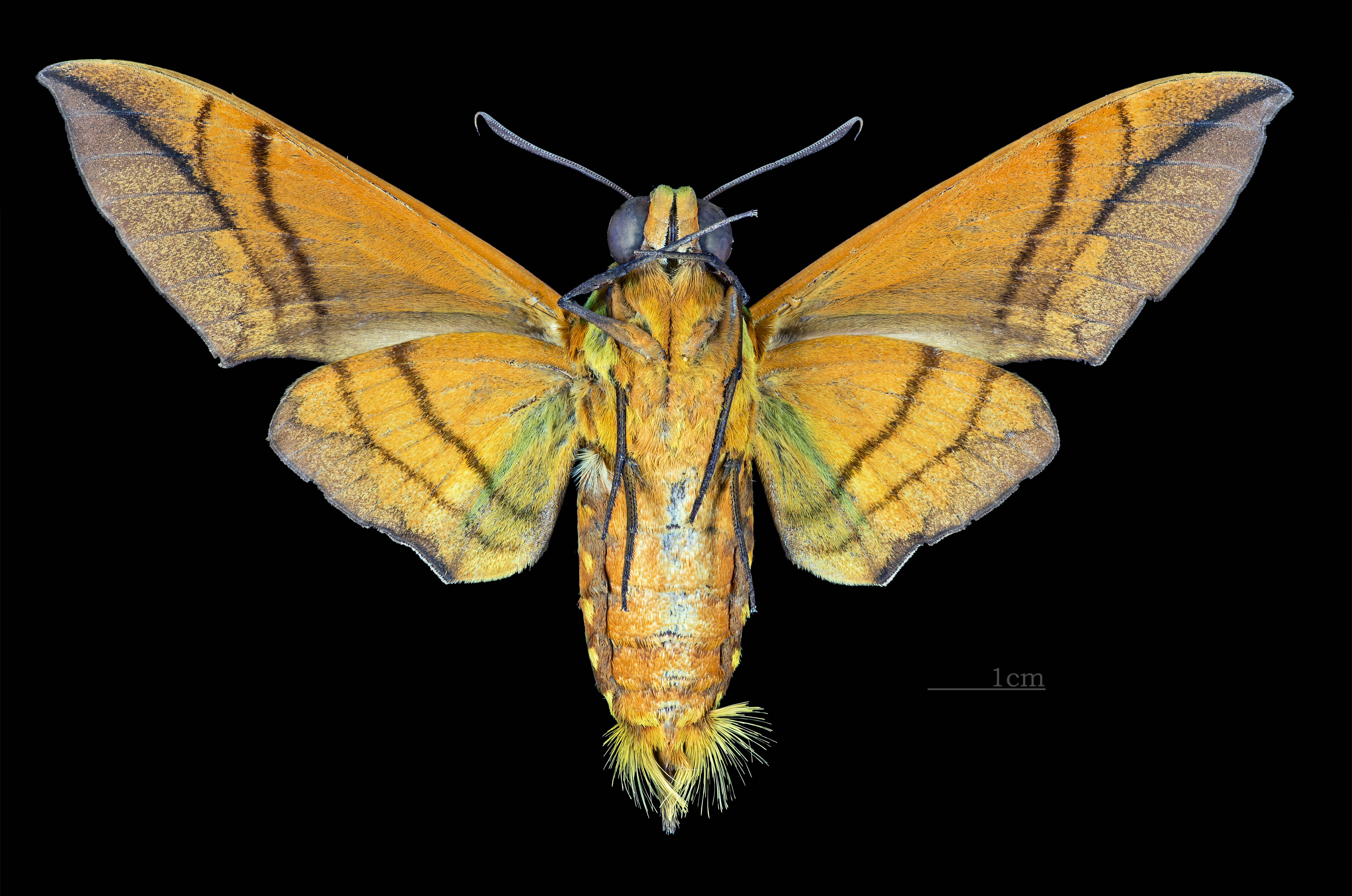 Oryba kadeni - △ Ventral side